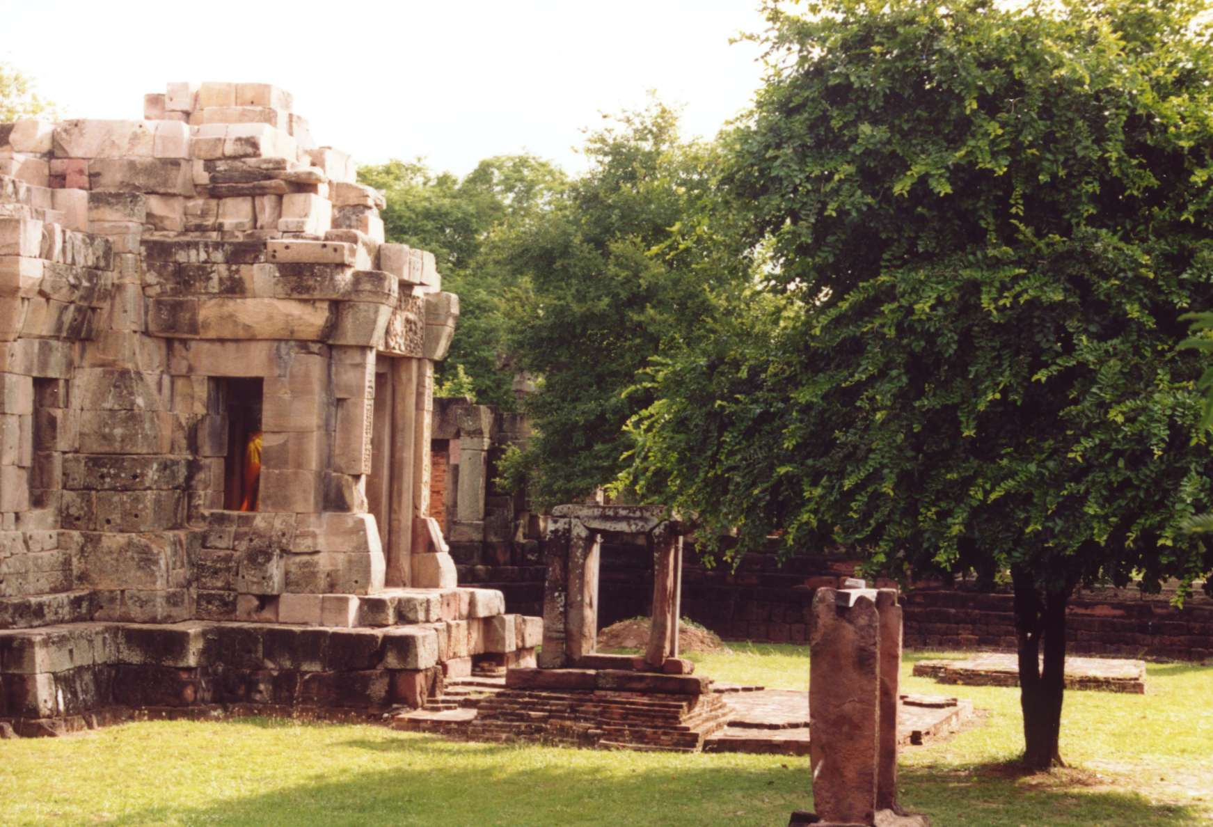 Phnom Wan, Khmer style temple, Nakhon Ratchasima, Thailand Prasat Phanom Wan situated between the modern city of Korat (Nakhon Ratchasima) and the ancient site of Phimai.